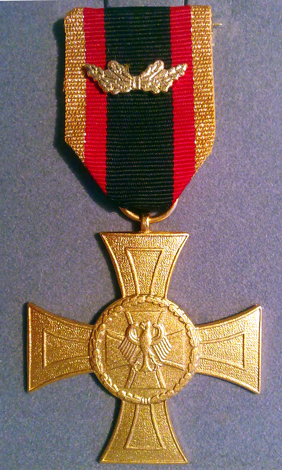 Honor Cross of the Bundeswehr for Bravery